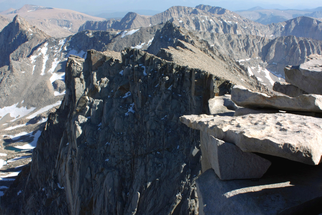 from summit of Mount Whitney, California, USA - looking south